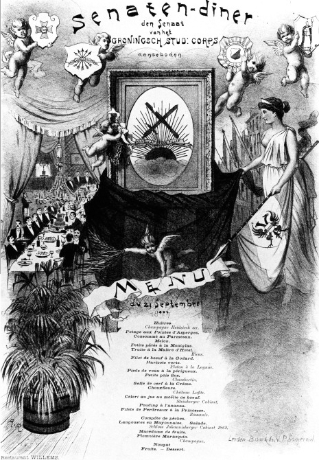 Dinner menu Algemene Senaten Vergadering 1894